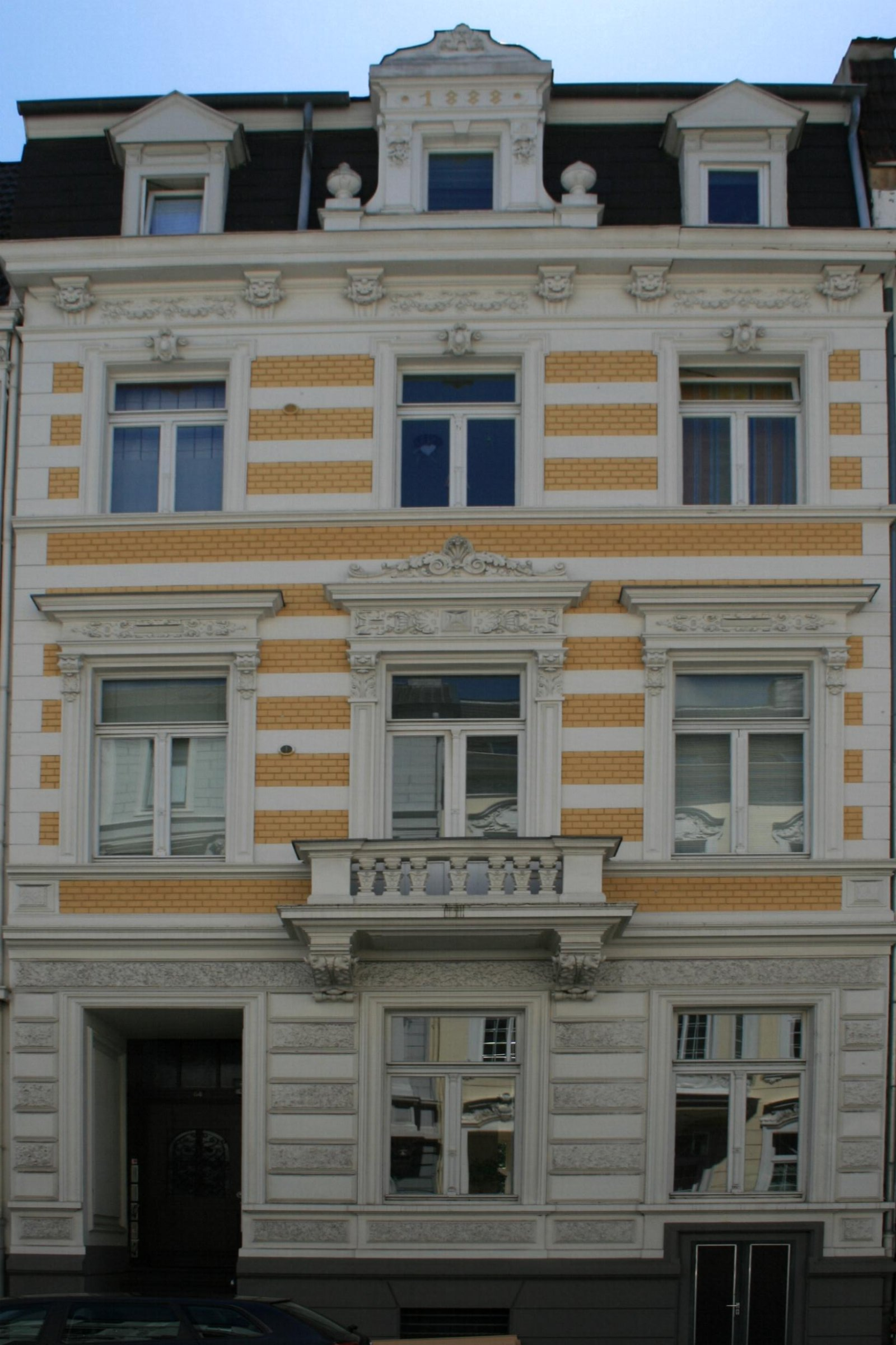 Cultural heritage monument No. K 006 in Mönchengladbach